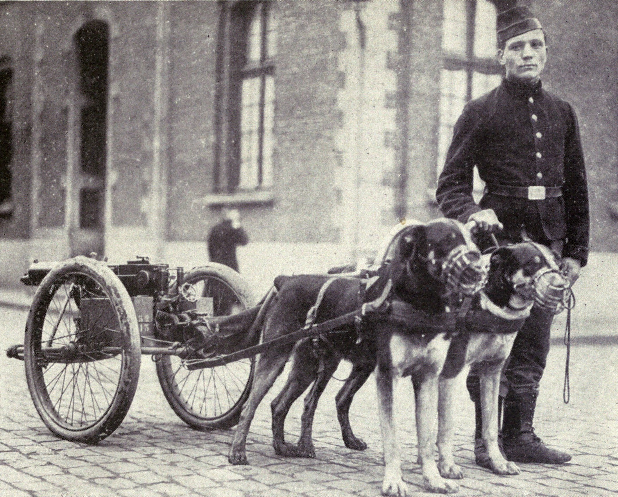 Belgian Dogs trained to draw quick-firing guns